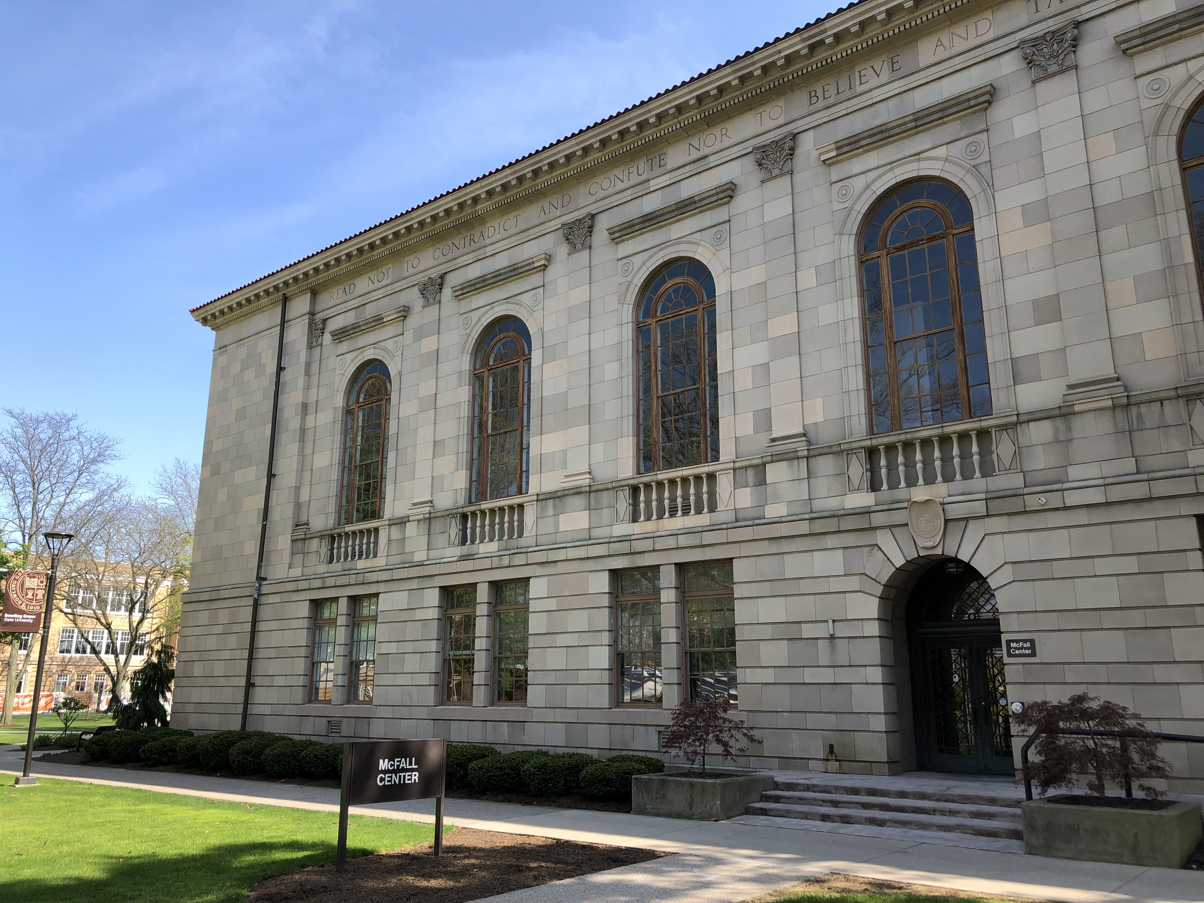 The entrance of the McFall center at Bowling Green State University.